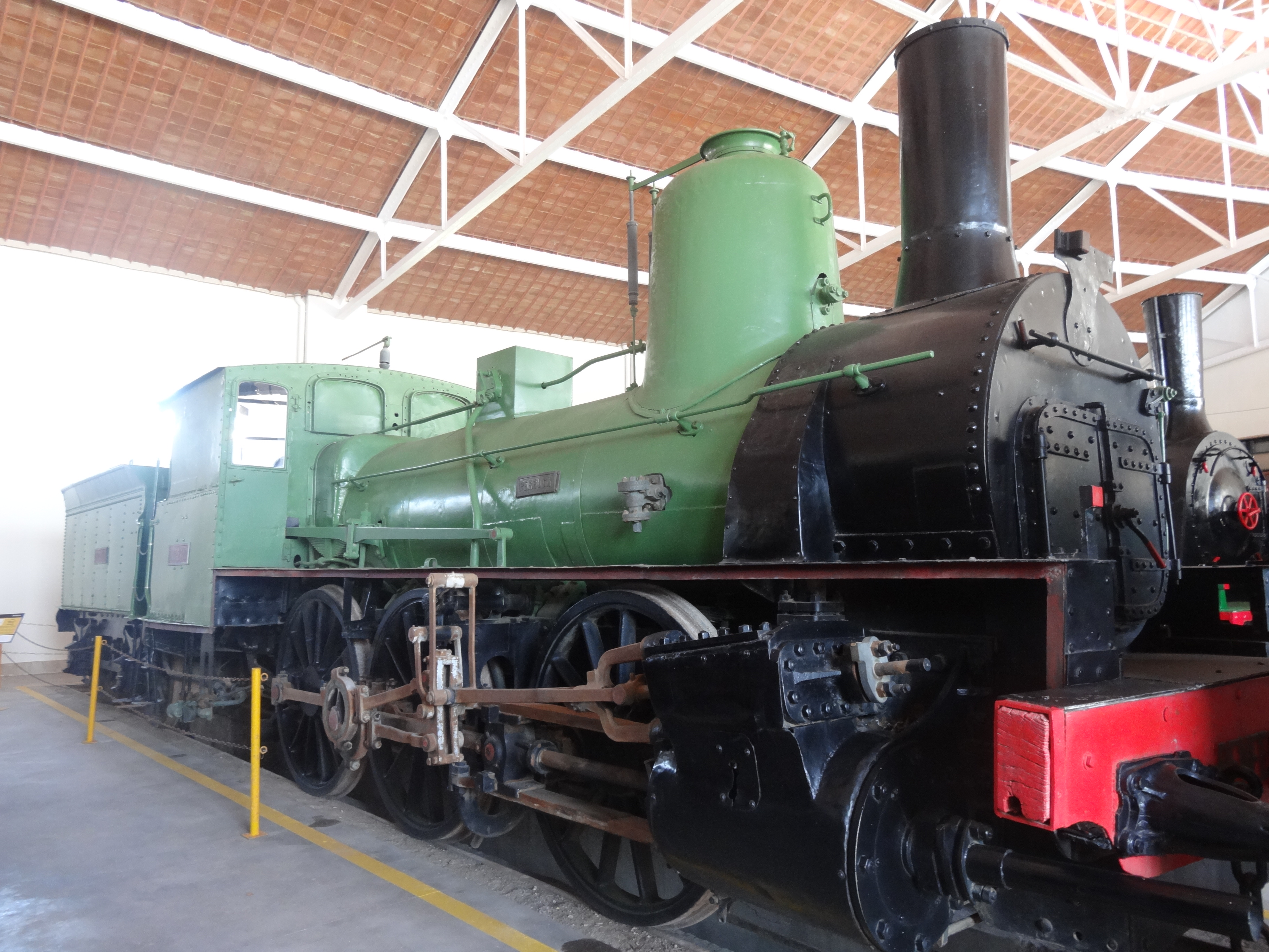 Railway museum (Vilanova i la Geltrú). Andre Koechlin & Cie locomotive